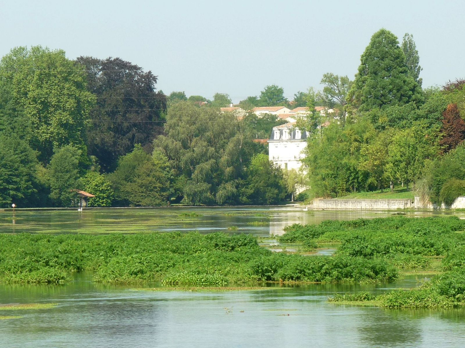 The river Touvre between Magnac and Touvre (Charente, France). Castle of Maumont.